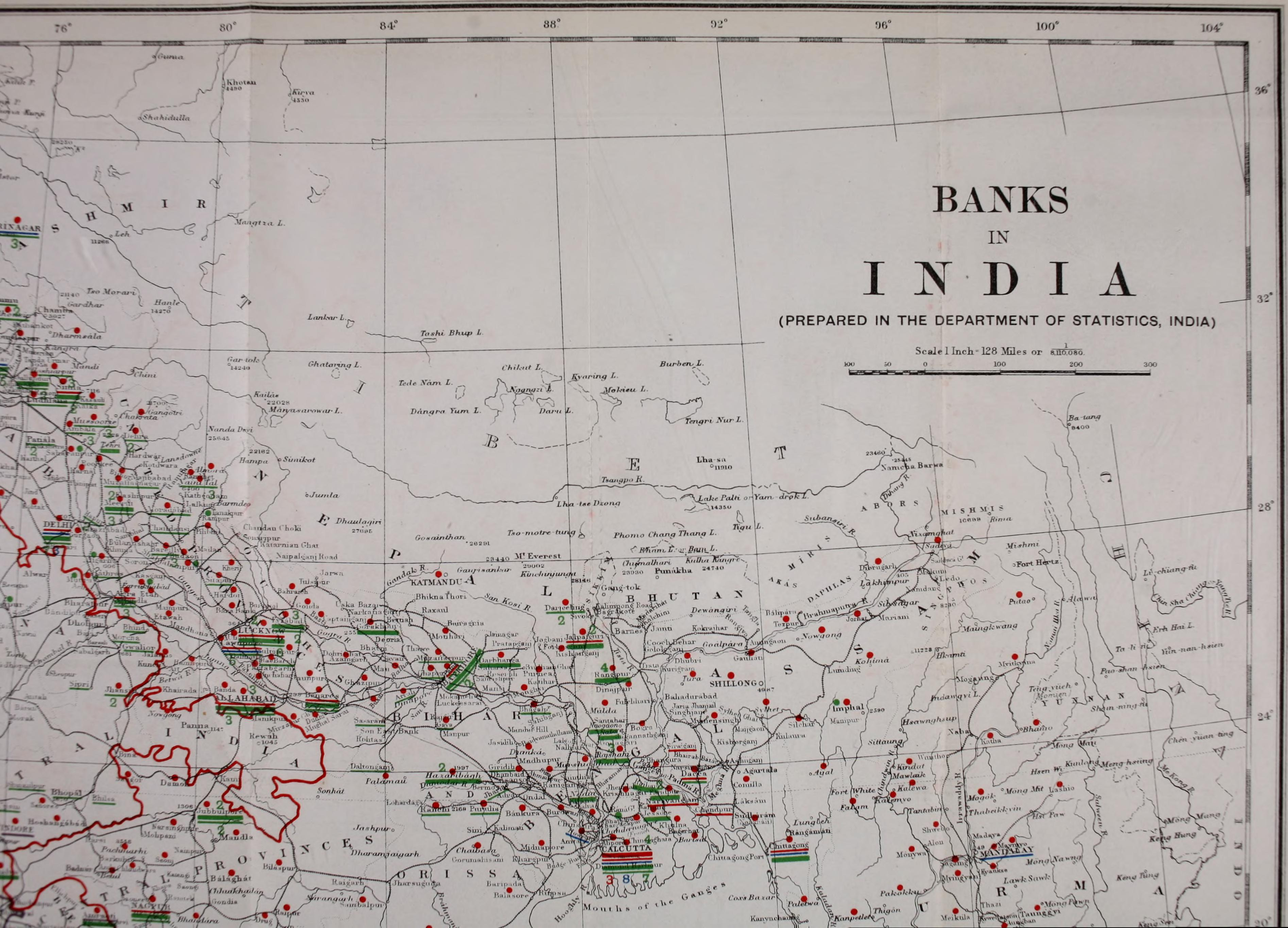 Title: Indian finance and banking Year: 1920 (1920s) Authors: Shirras, George Findlay, 1885- Subjects: Currency question Publisher: London, Macmillan Text Appearing Before Image: ' Text Appearing After Image: '